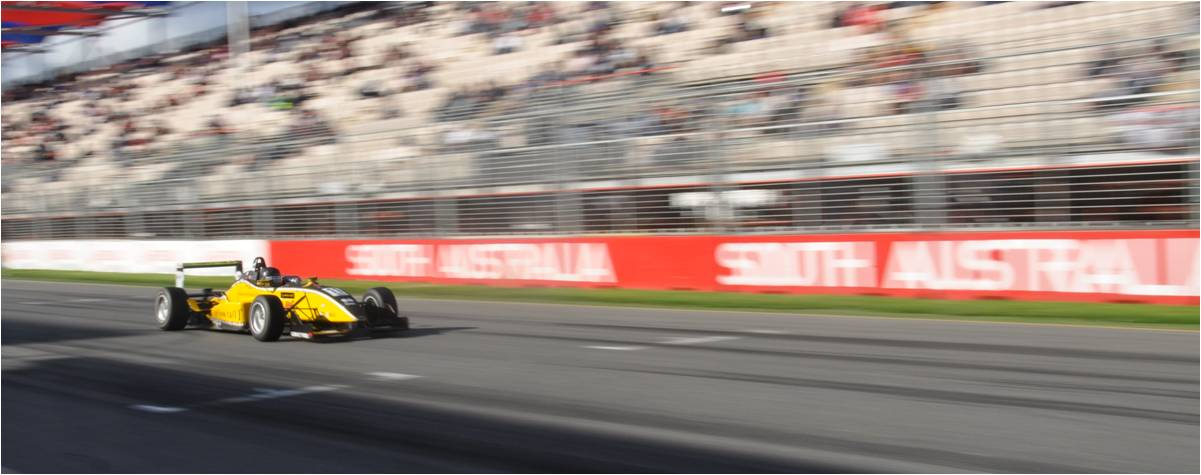 The Dallara F307 Renault of Astuti Motorsport at the opening round of the 2012 Australian Drivers' Championship / Australian Formula 3 Championship at the Adelaide Parklands Circuit. The car is being driven by Chris Vlok.